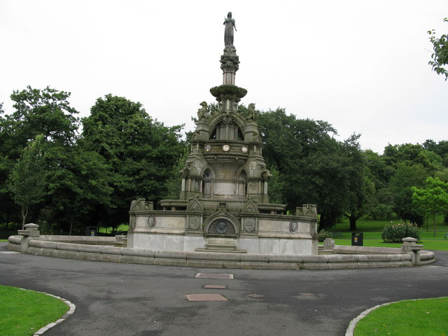 Fountain in Kelvingrove Park The Fountain honours the engineers, led by John Bateman, who built the magnificent Loch Katrine Water System.